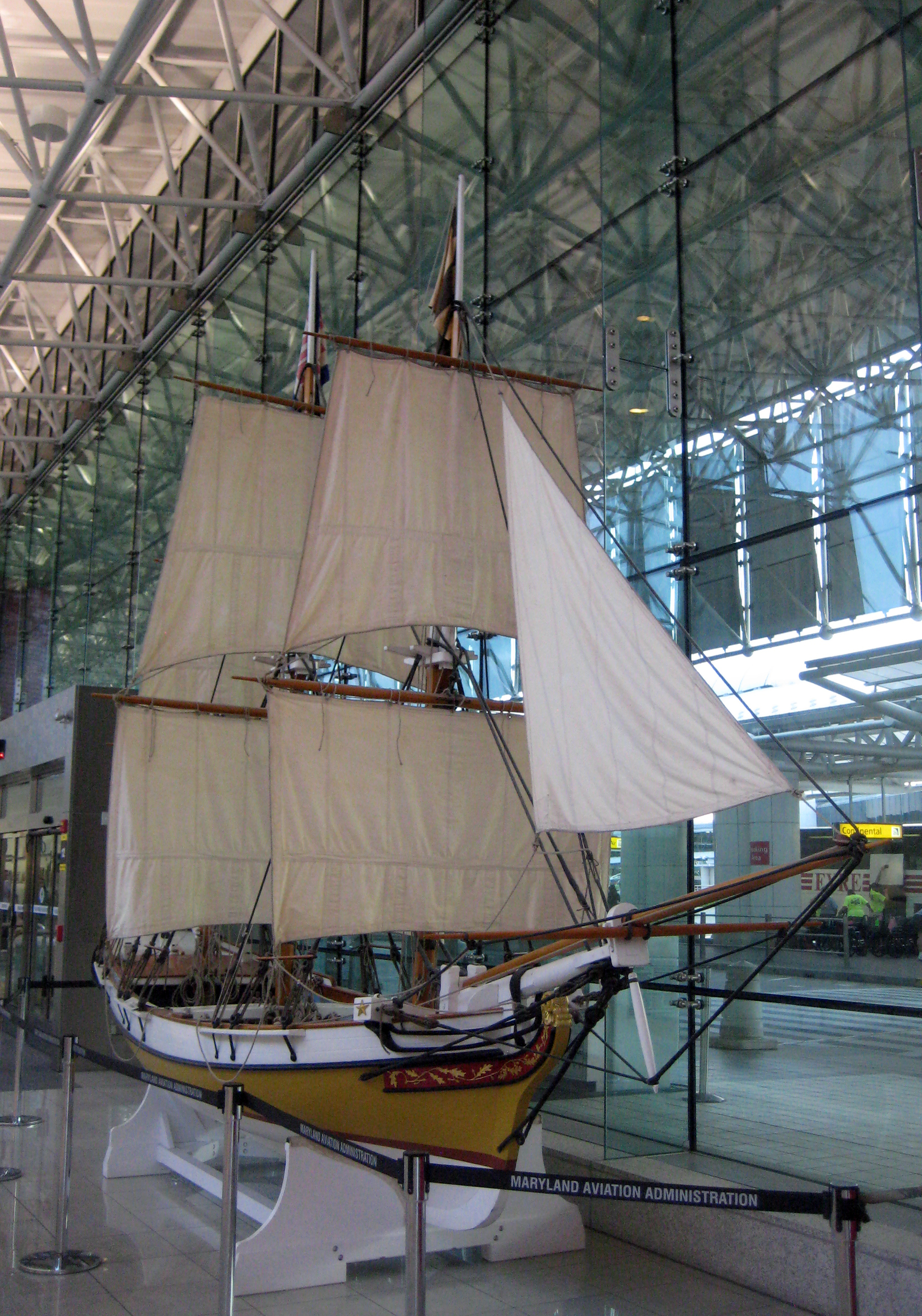 Front starboard view of the Maryland Federalist, BWI Airport, June 25, 2011.